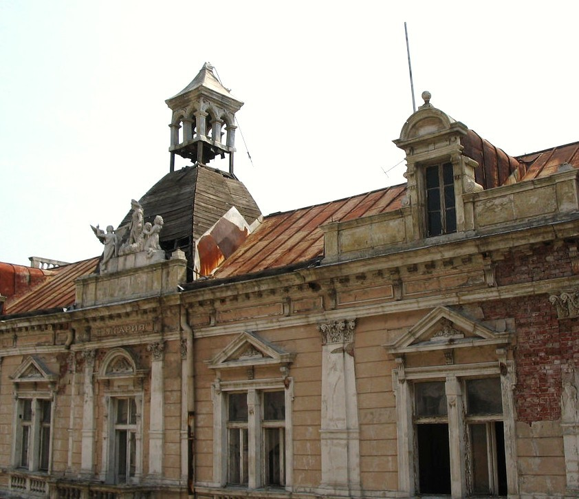 Insurance company Bulgaria - main building